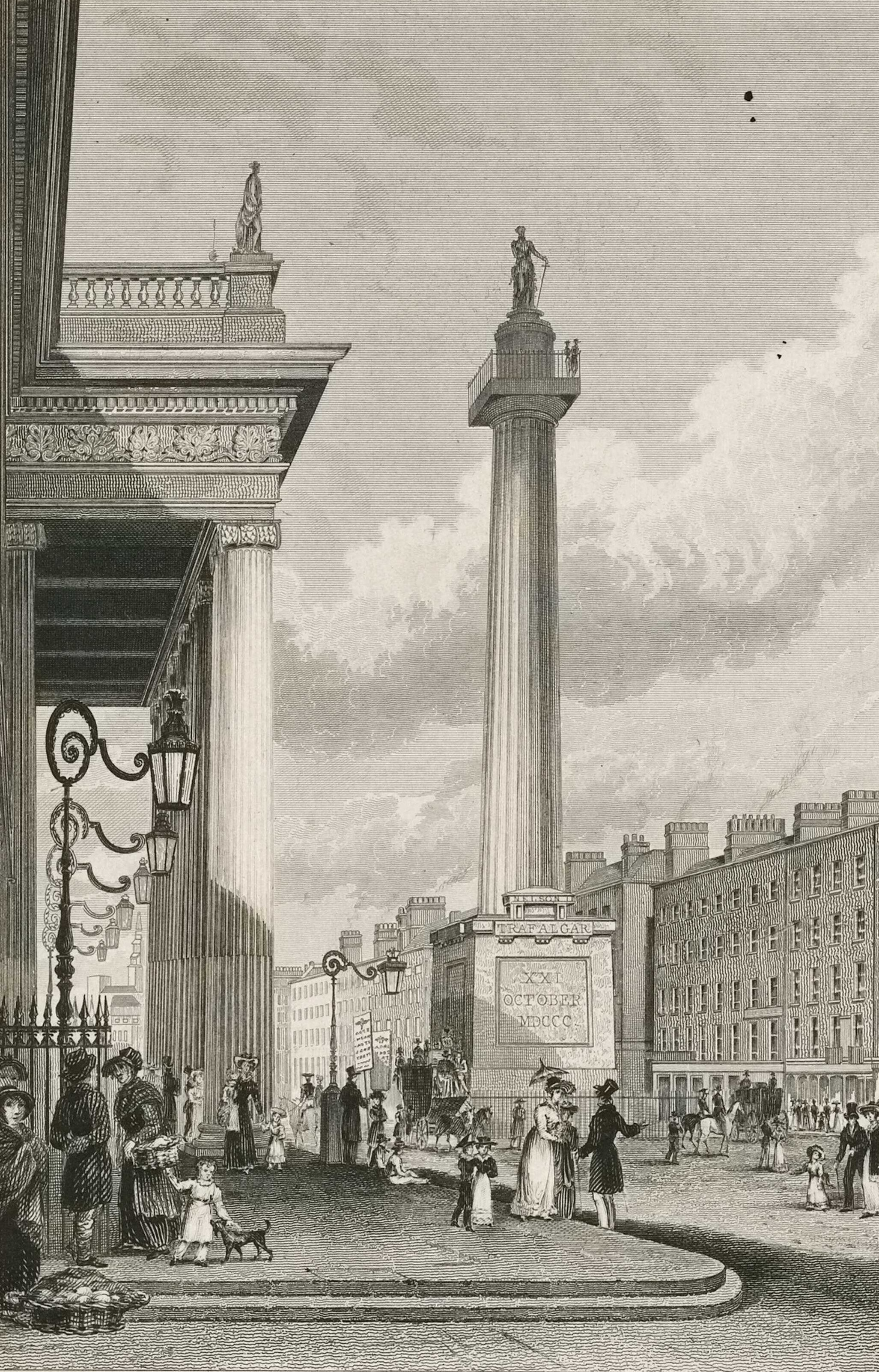 Nelson's Pillar, Sackville-Street, Dublin Technique includes engraving. This print depicts the Nelson Pillar in what was Sackville Street (now O’Connell Street), Dublin. It was erected in 1808 and stood until 1966 when the IRA blew up Nelson’s statue on the top and the remains of the column were subsequently demolished. Nelson's Pillar, Sackville-Street, Dublin